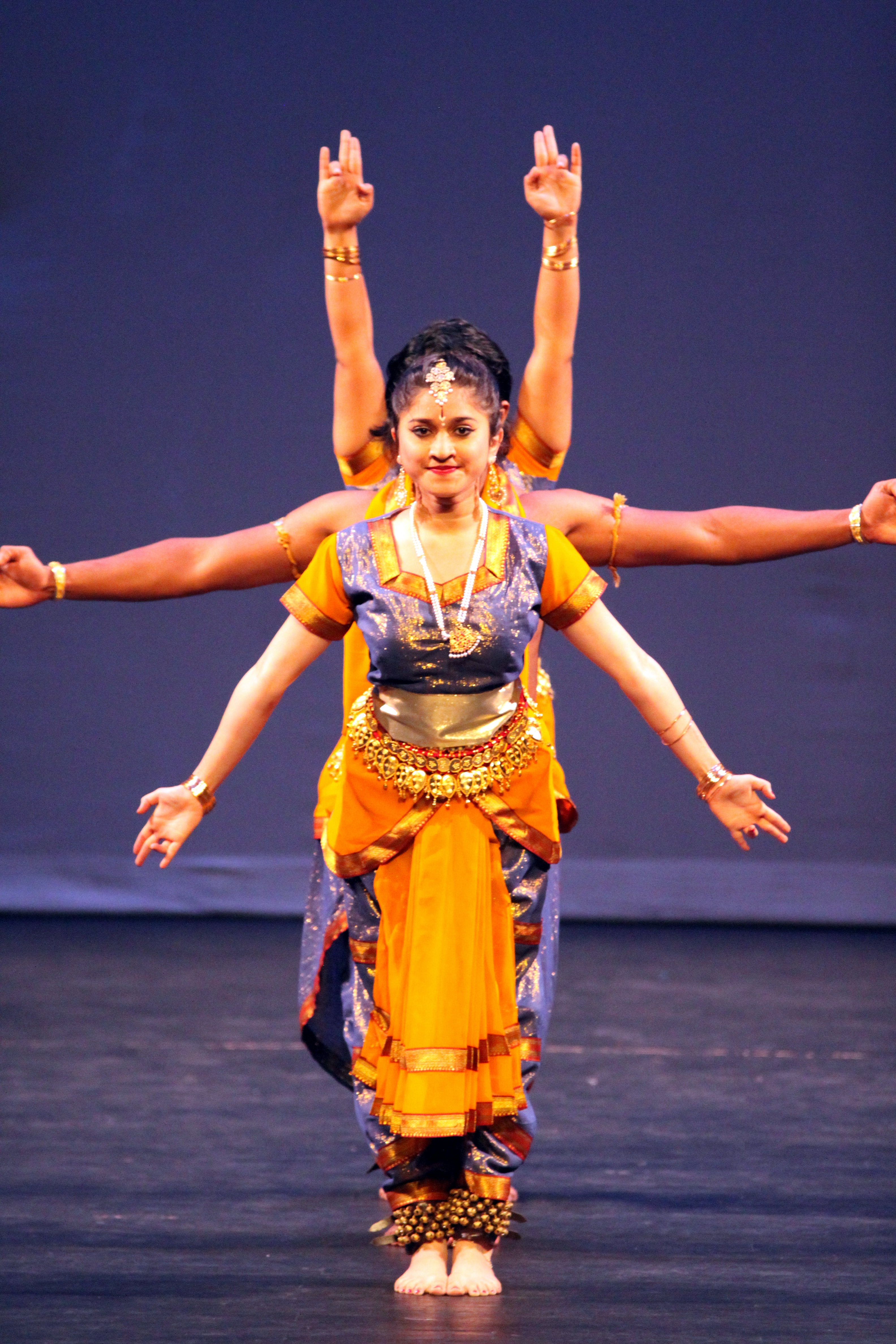 An example of the use of multiple arms in Indian dance, representing a Hindu deity.